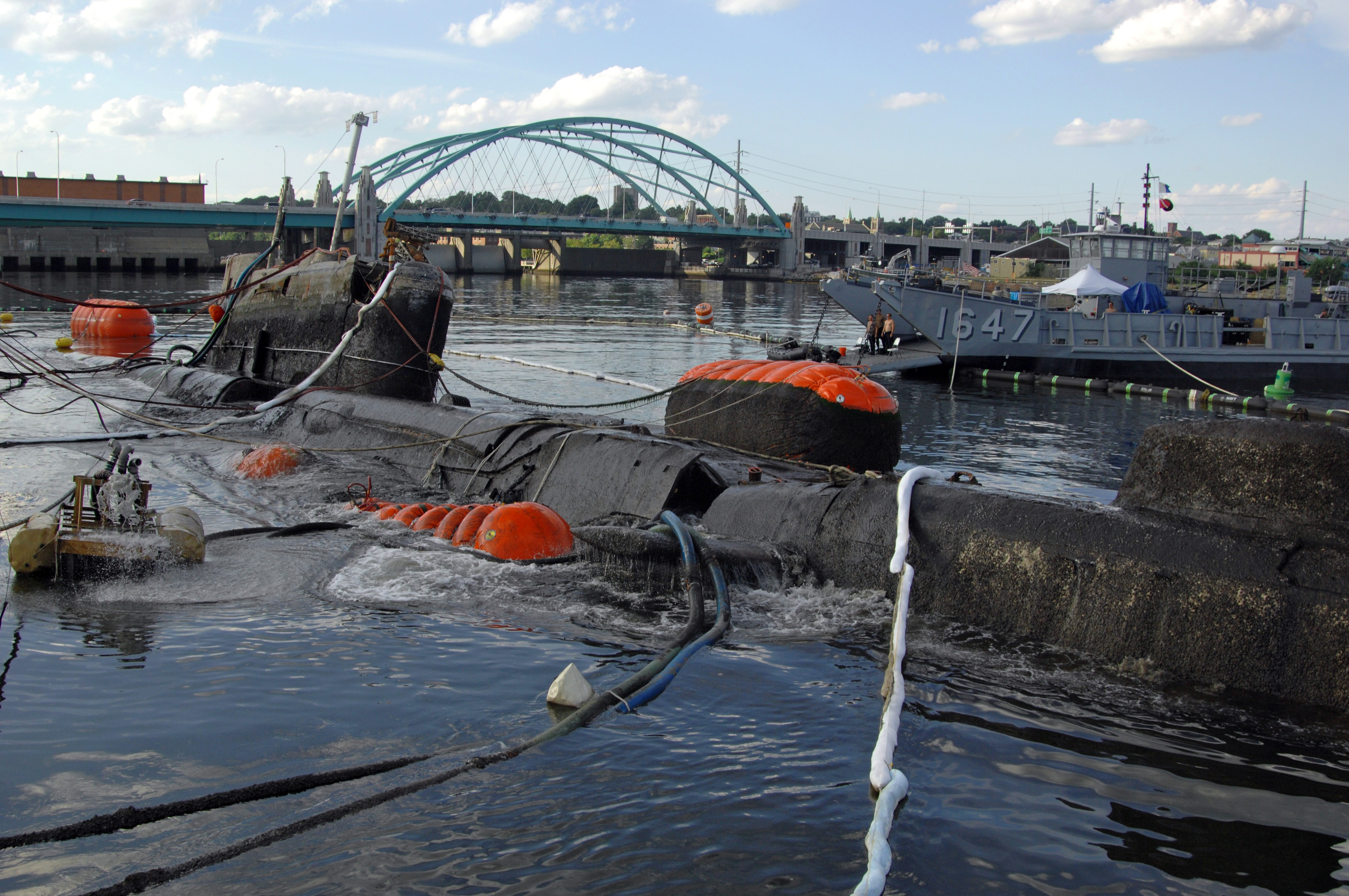 080725-N-8298P-050 PROVIDENCE, R.I. The former Soviet submarine Juliett 484 is surfaced after having been at the bottom of the Providence River for more than a year. U.S. Navy and Army divers, working with federal, state, and local authorities, raised the sunken former Soviet submarine at Collier Point Park in Providence, R.I.